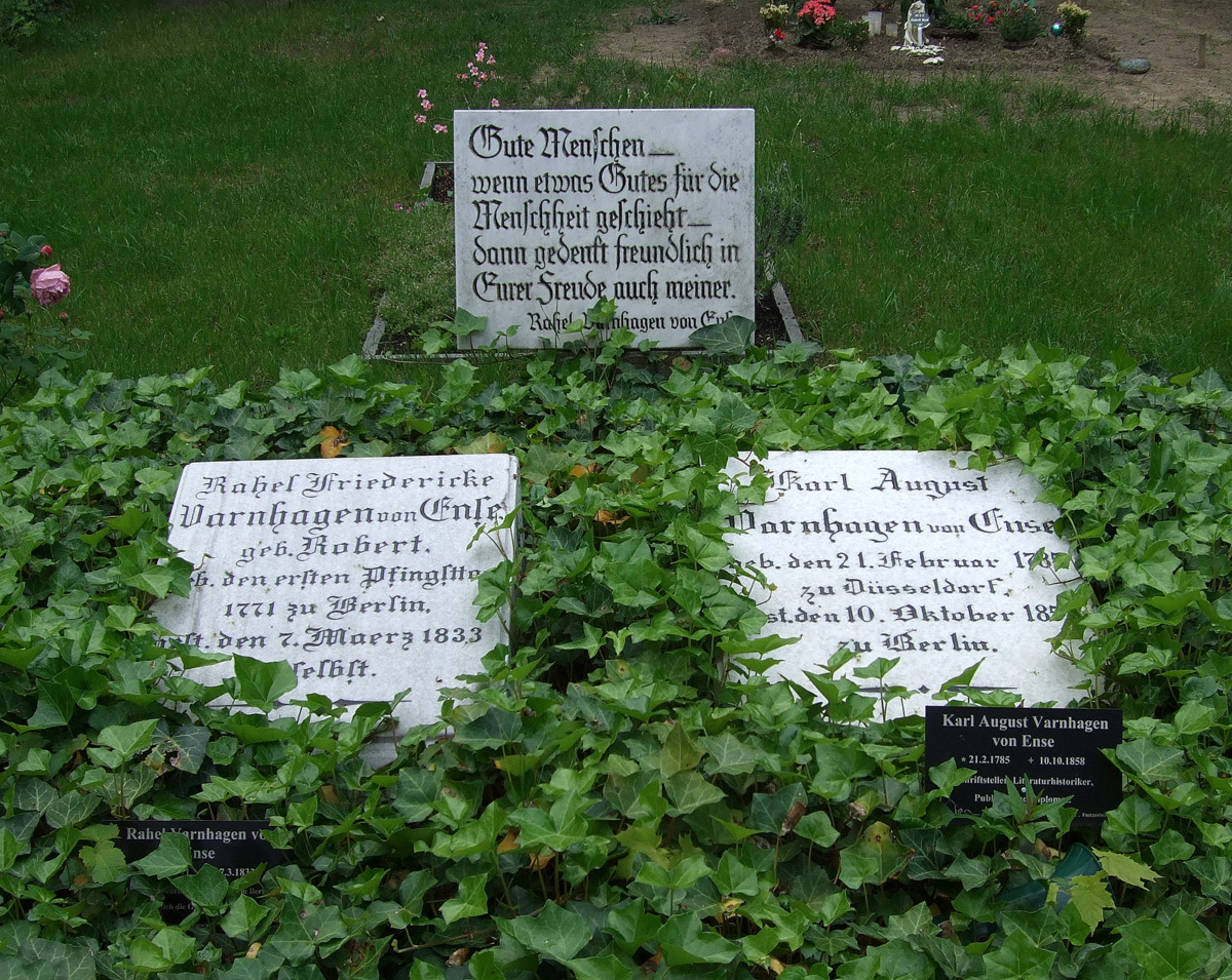 Tomb of R Varnhagen